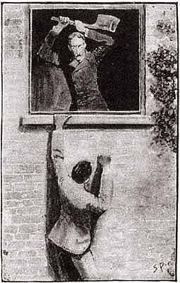 Illustration by Sidney Paget of The Adventure of the Engineer's Thumb, which appeared in The Strand Magazine in March, 1892. Original caption was "'HE CUT AT ME.'"